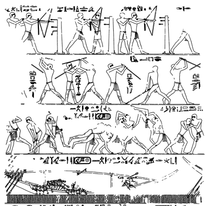 Saho Ra Tahtib - Abou Sir